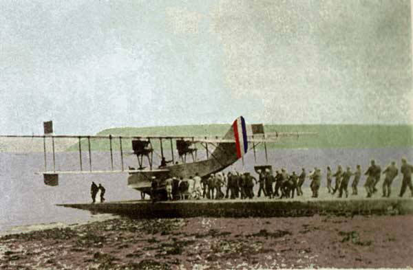 NAS Queenstown men bringing up the Curtiss H16 flying boat at NAS Queenstown, Aghada, County Cork, Ireland during WWI. Note: WW1 U.S. Naval Air Station Queenstown, Aghada, County Cork, Ireland men bringing up the plane from slipway. The Froass Family, Oneida, NY